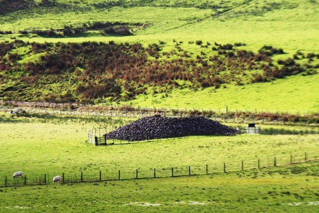 Nether Largie North Cairn Viewed from Kilmartin churchyard contains a stone burial cist.